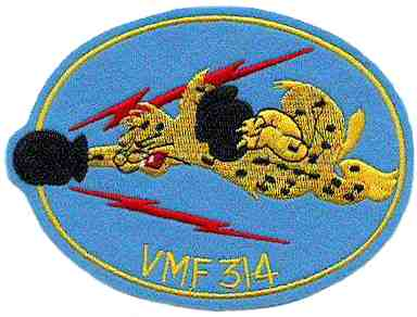 Image was found here: The website advises copying images rather than linking to the images, implying they're in the public domain.